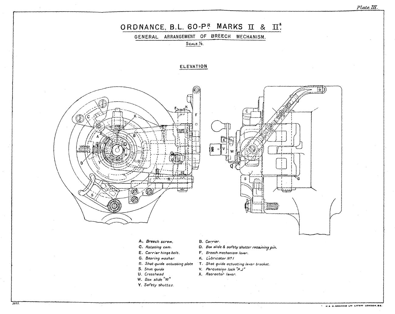 BL 60-pounder field gun Mark II breech mechanism elevation.